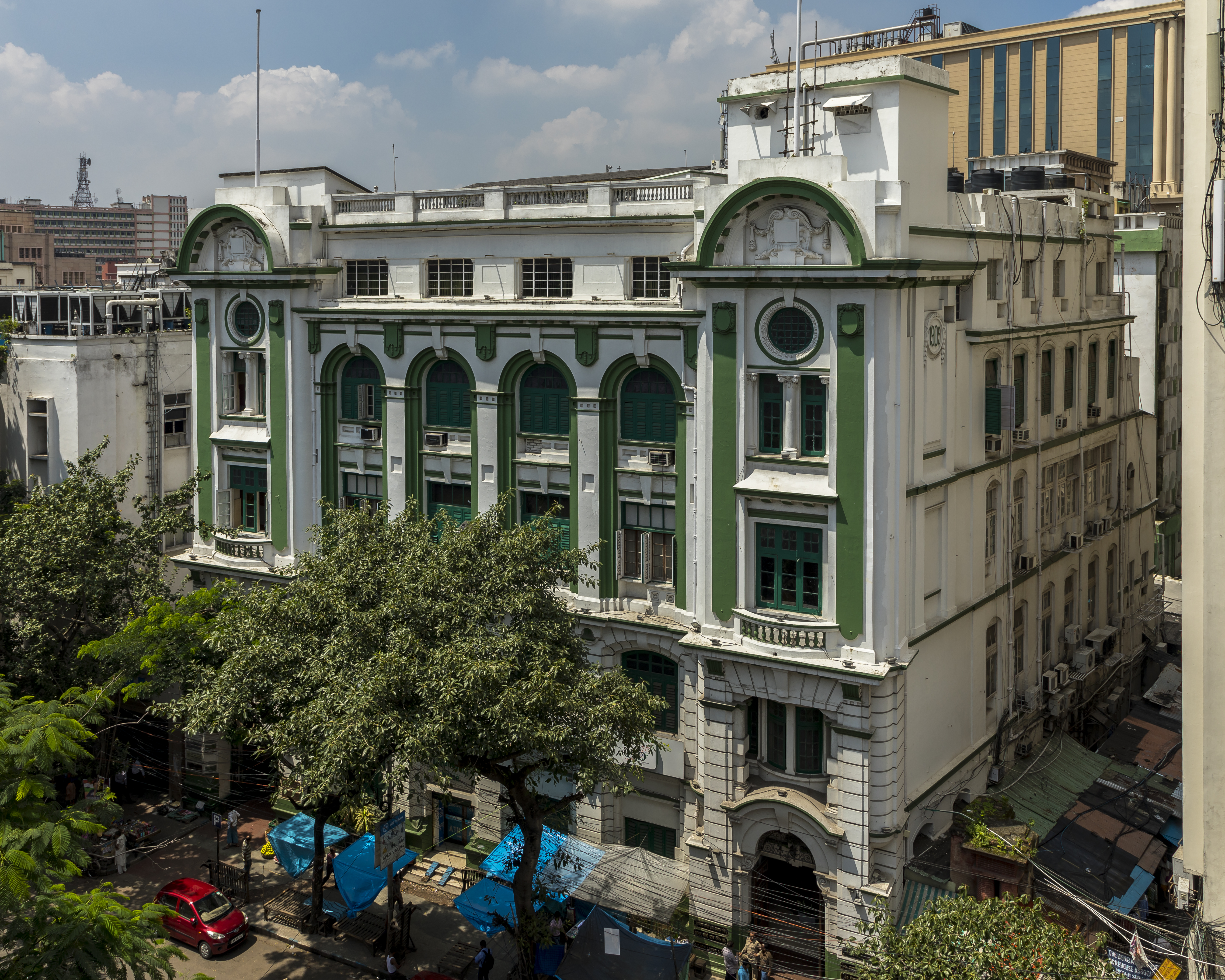 Balmer Lawrie House, headquarters of Balmer Lawrie & Co. Ltd. on 21, Netaji Subash Road, Kolkata -700 001